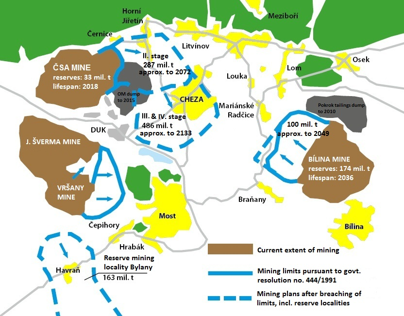 Territorial mining limits in North Bohemia. Source: Kořeny (2012) and Invicta Bohemica (2010, in VŠE 2011); modified by Andrew Barton, Charles University Environment Center, 2012.